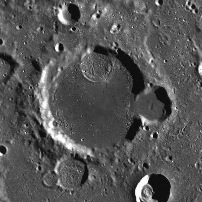 Baldet crater LROC image